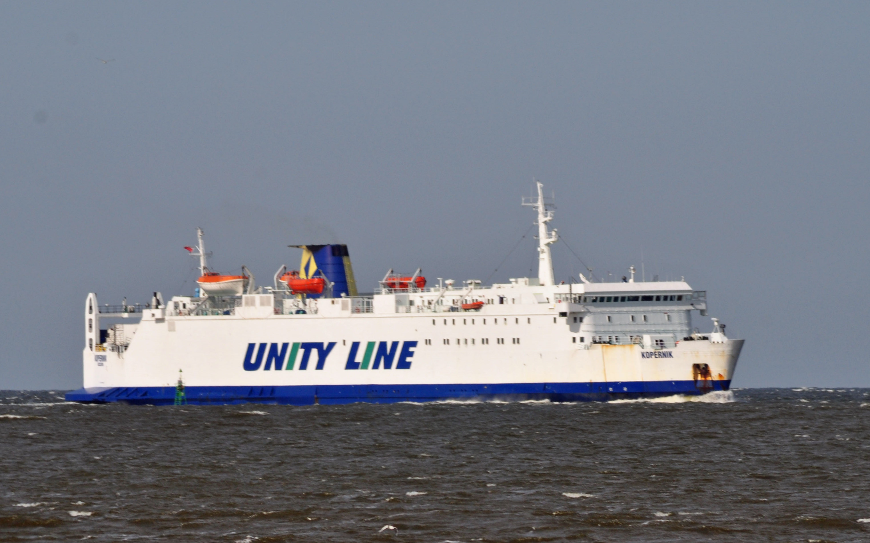 The combined train and car ferry Kopernik of the polish Unity Line on the Baltic Sea at the entrance of the port of Świnoujście (Swinemünde) on 2011-08-03.